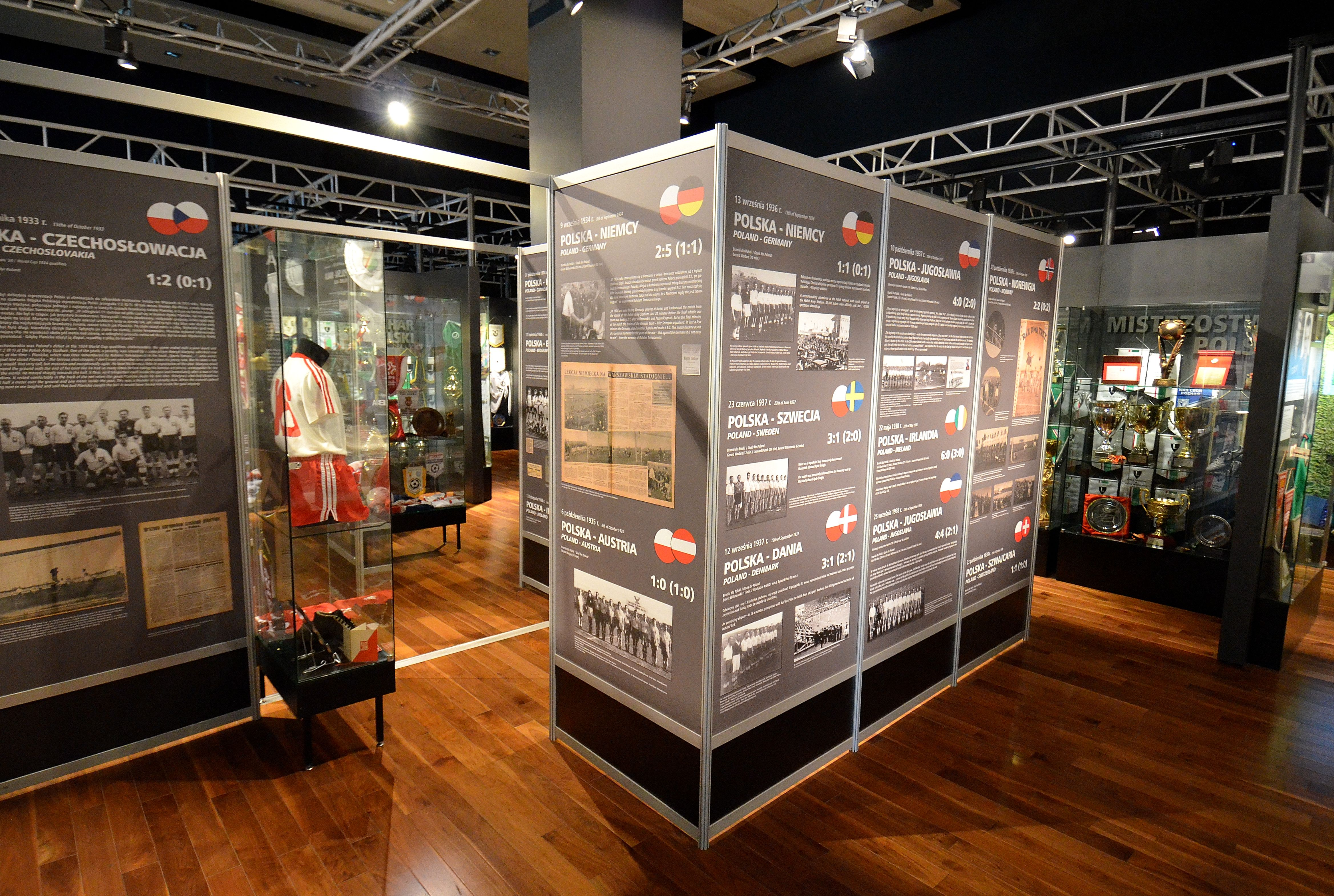 Legia Warszawa Museum